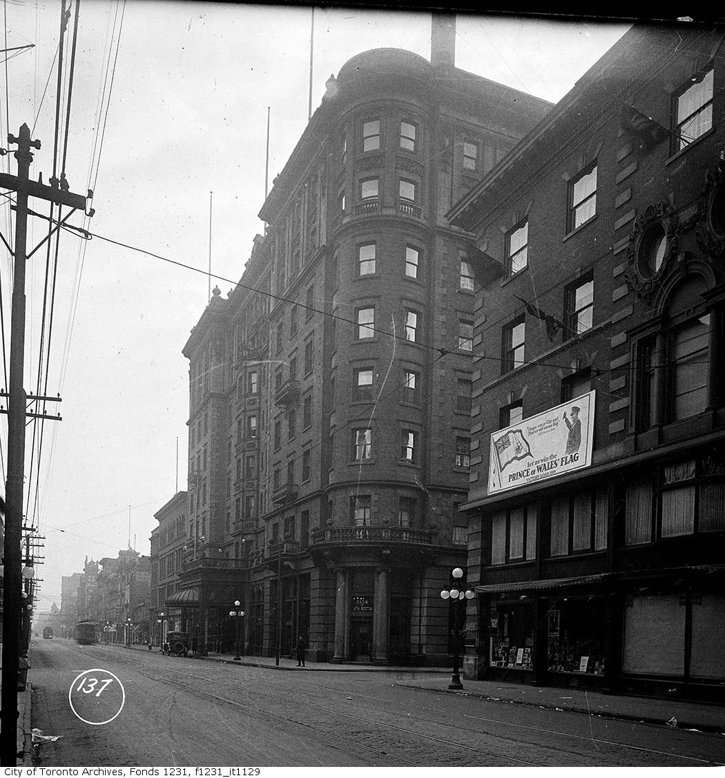 King Edward Hotel, Toronto, Canada